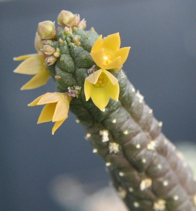 Echidnopsis cereiformis in Blüte